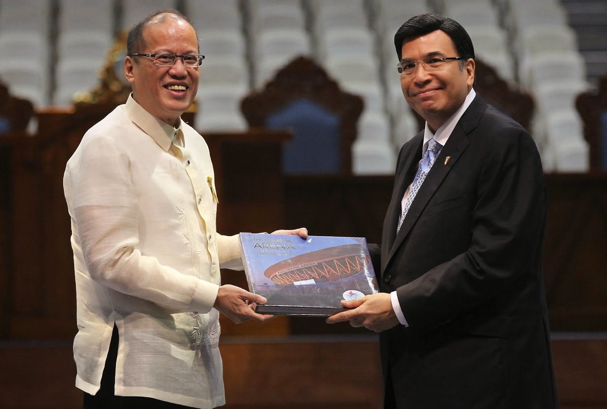 President Benigno S. Aquino III receives the first copy of the Philippine Arena Coffee Table Book presented by Iglesia ni Cristo (INC) Executive Minister Brother Eduardo Manalo during the Inauguration of Ciudad de Victoria (City of Victory) in Bocaue, Bulacan on Monday (July 21). Ciudad de Victoria is a 50-hectare tourism enterprise zone established by the INC in time for its centennial celebration on Sunday (July 27). (Photo by Ryan Lim / Malacañang Photo Bureau)